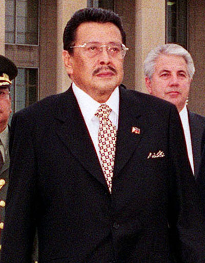 Cropped picture of President Joseph Estrada at the pentagon